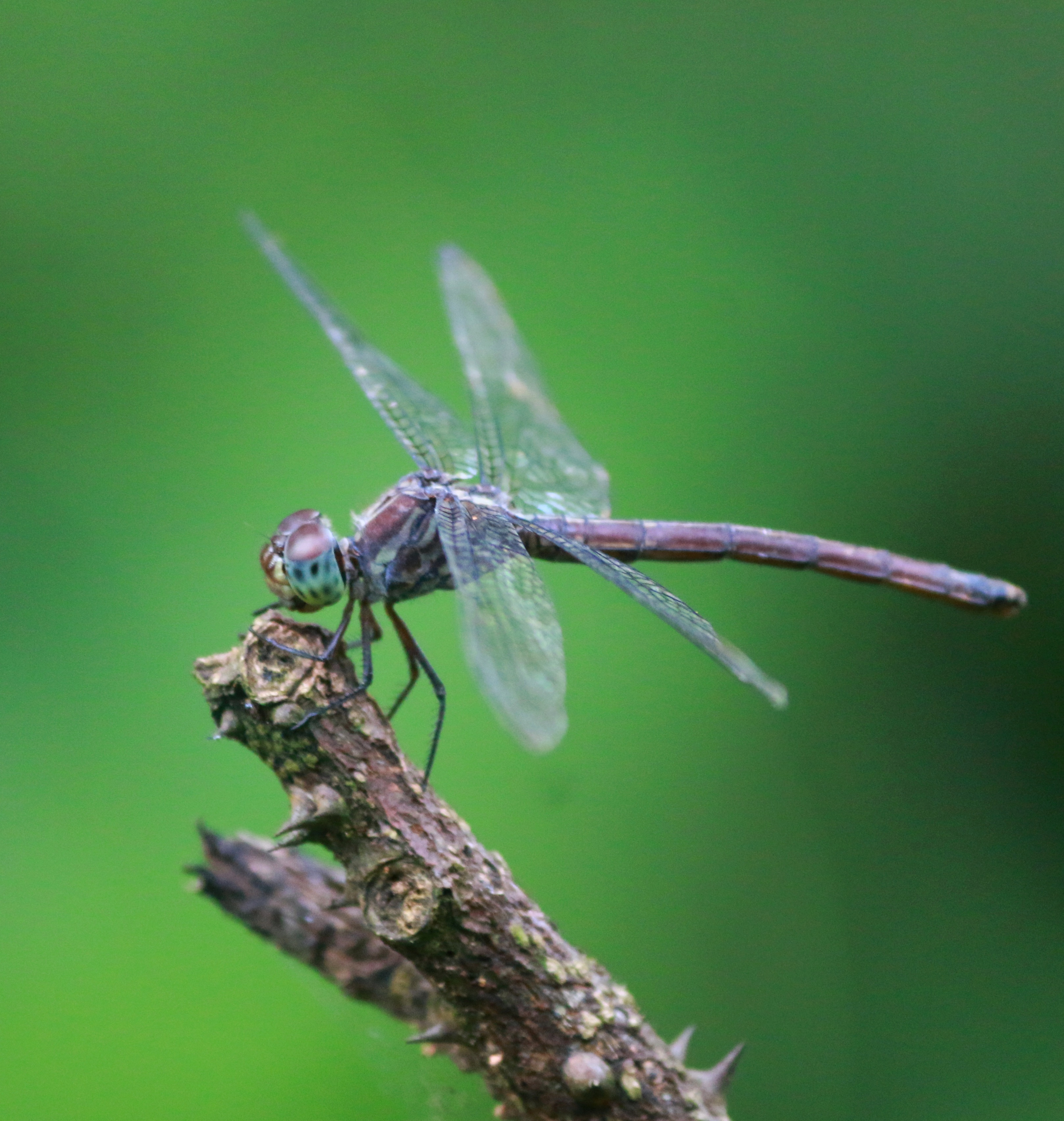 Lathrecista asiatica, aged female